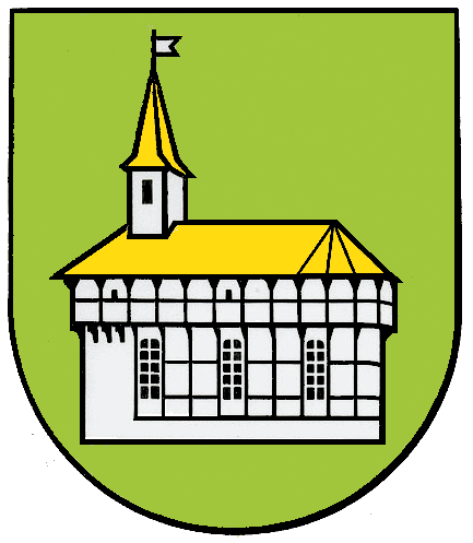 Coat of Arms of Eimen